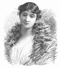 French opera singer Emma Calvé (1858-1942)